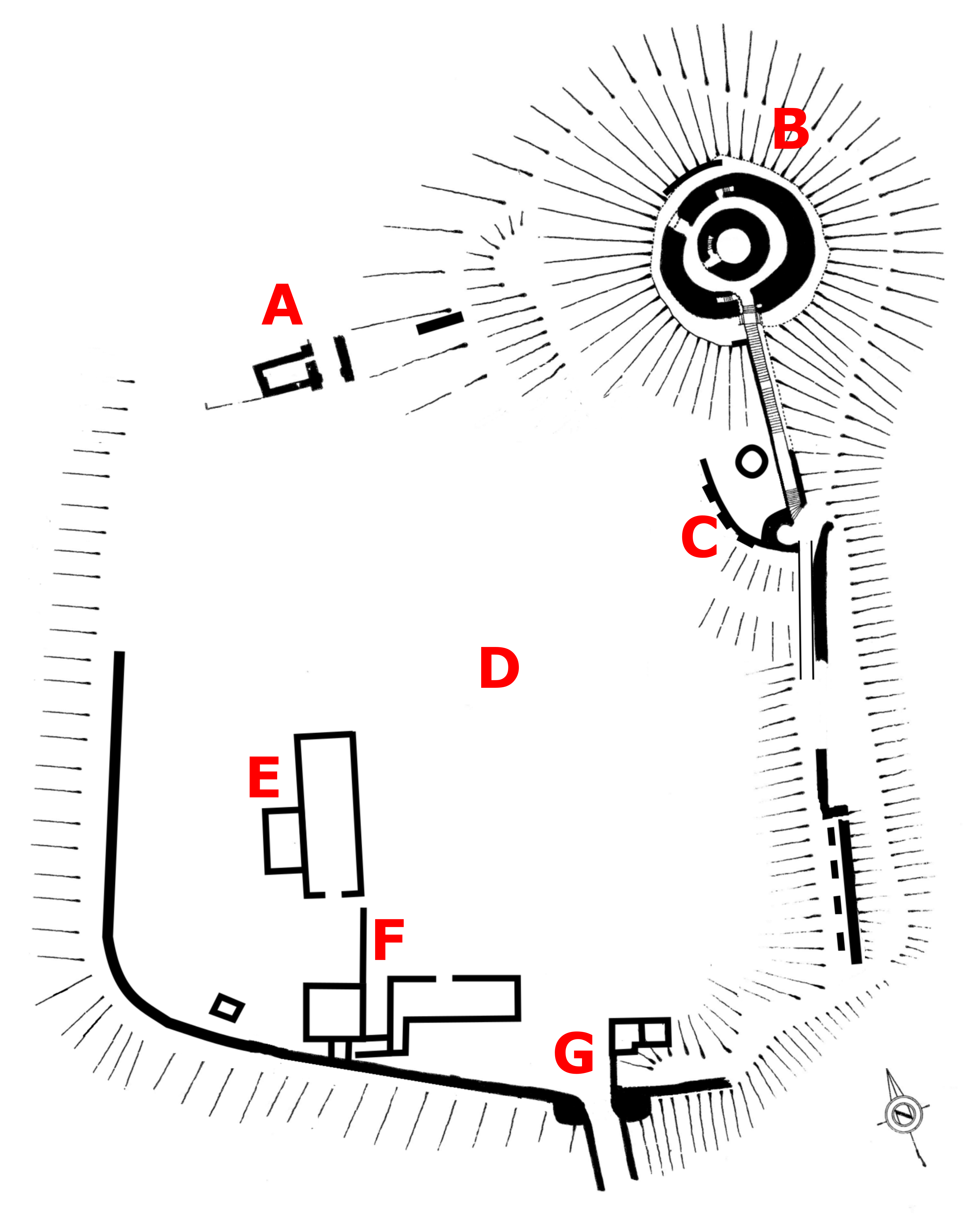 Launceston Castle - plan, after Jones, updated post investigations